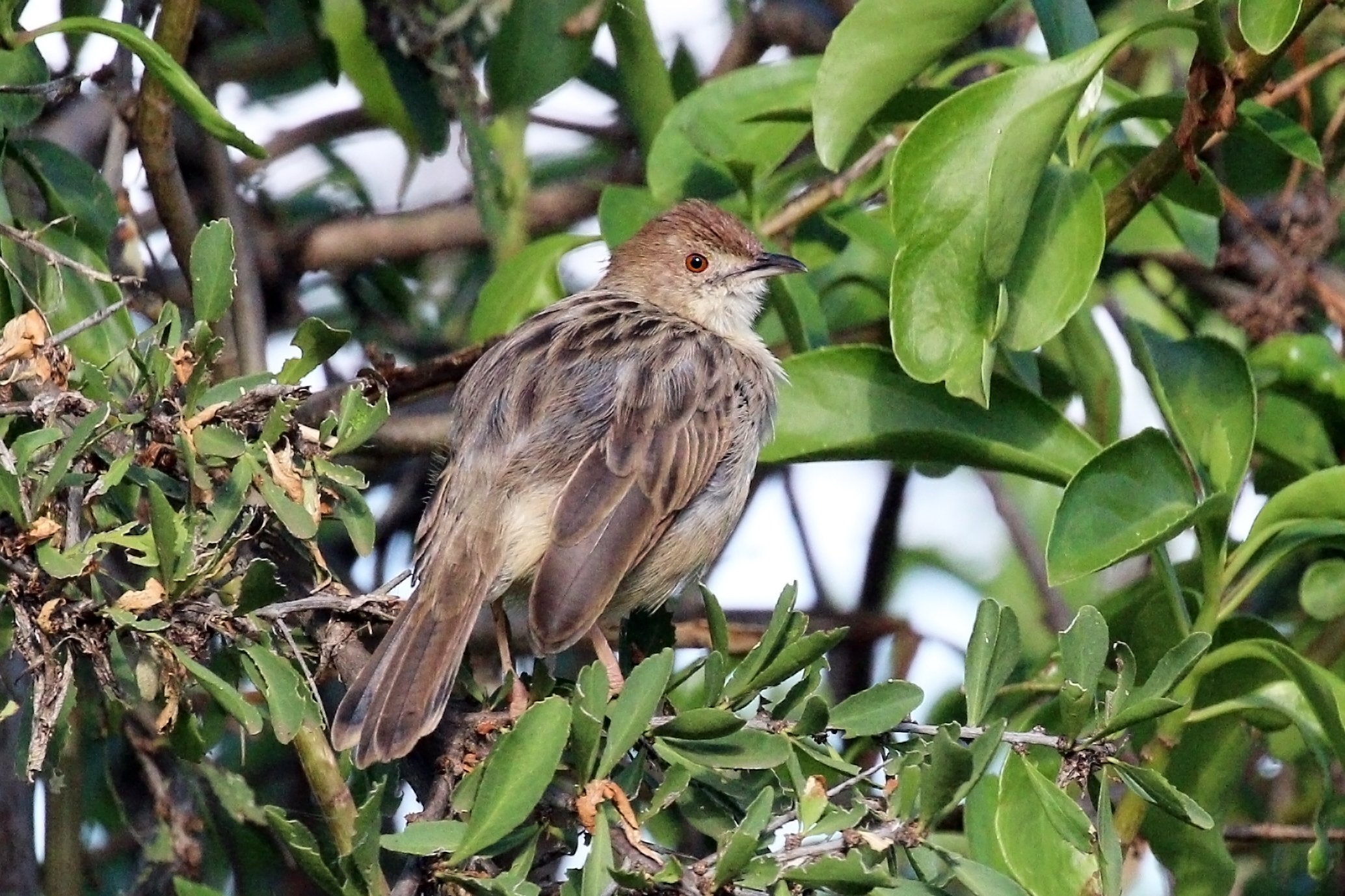 Rattling cisticola (Cisticola chiniana humilis), Soysambu Wildlife Conservancy, Kenya